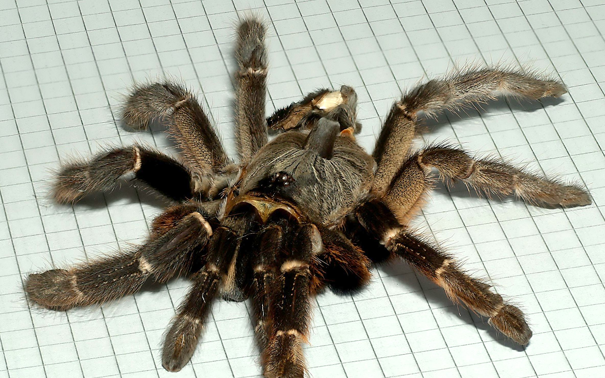 adult female Ceratogyrus darlingi exuvia. Picture is a weighted average of ten pictures, done with CombineZM. Squares on paper have a width of 5 mm.